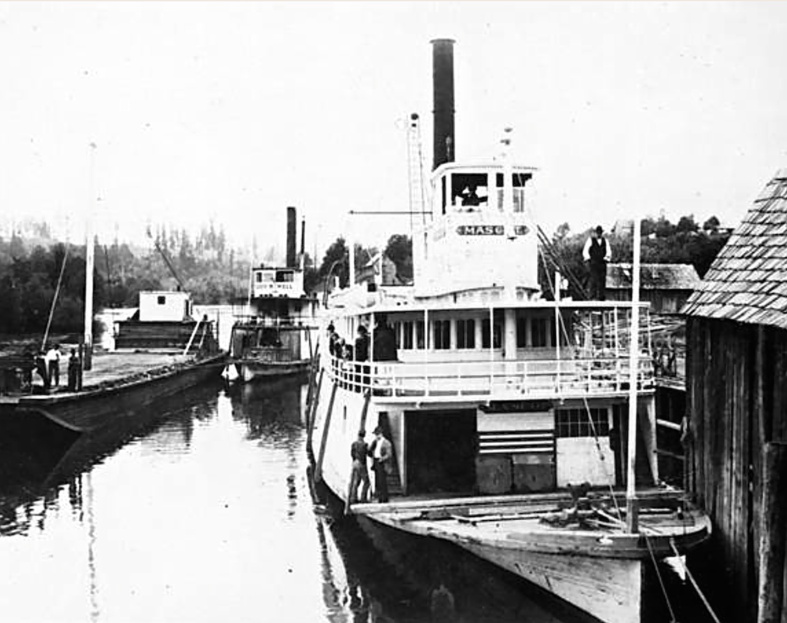 Steamers Mascot and Gov. Newell at La Center, WA, with a scow shown on left, image taken May 13, 1900]